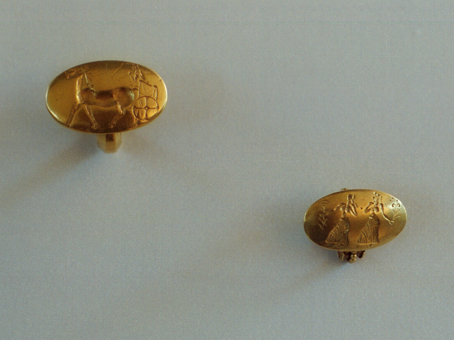 Gold rings with reliefs (horse and female characters). Aidonia, from a grave, the Late Bronze Age. Archaeological Museum of Nemea, MN 1005, MN 1006.